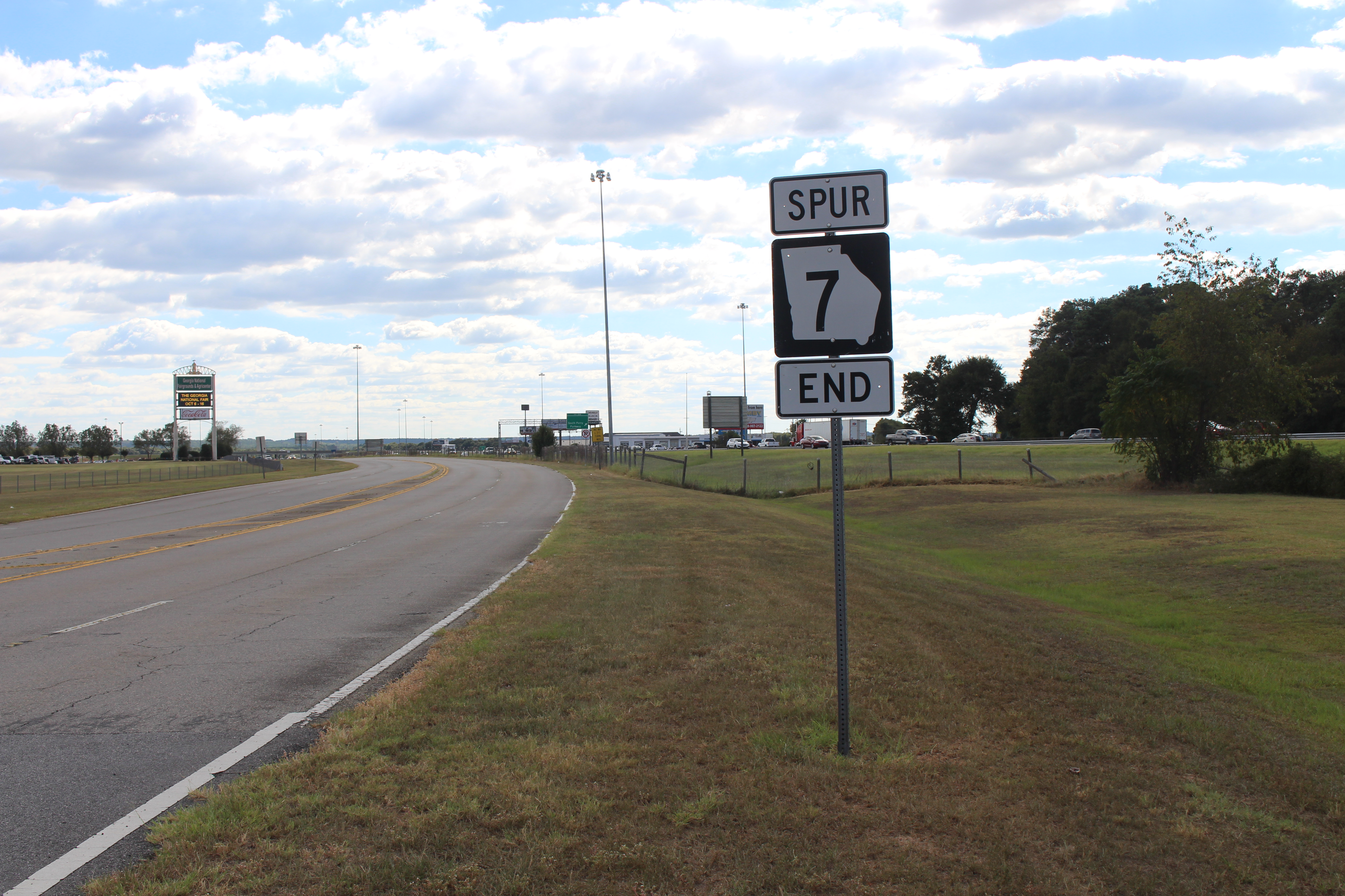 Spur 7 End south, Perry, Houston County, Georgia